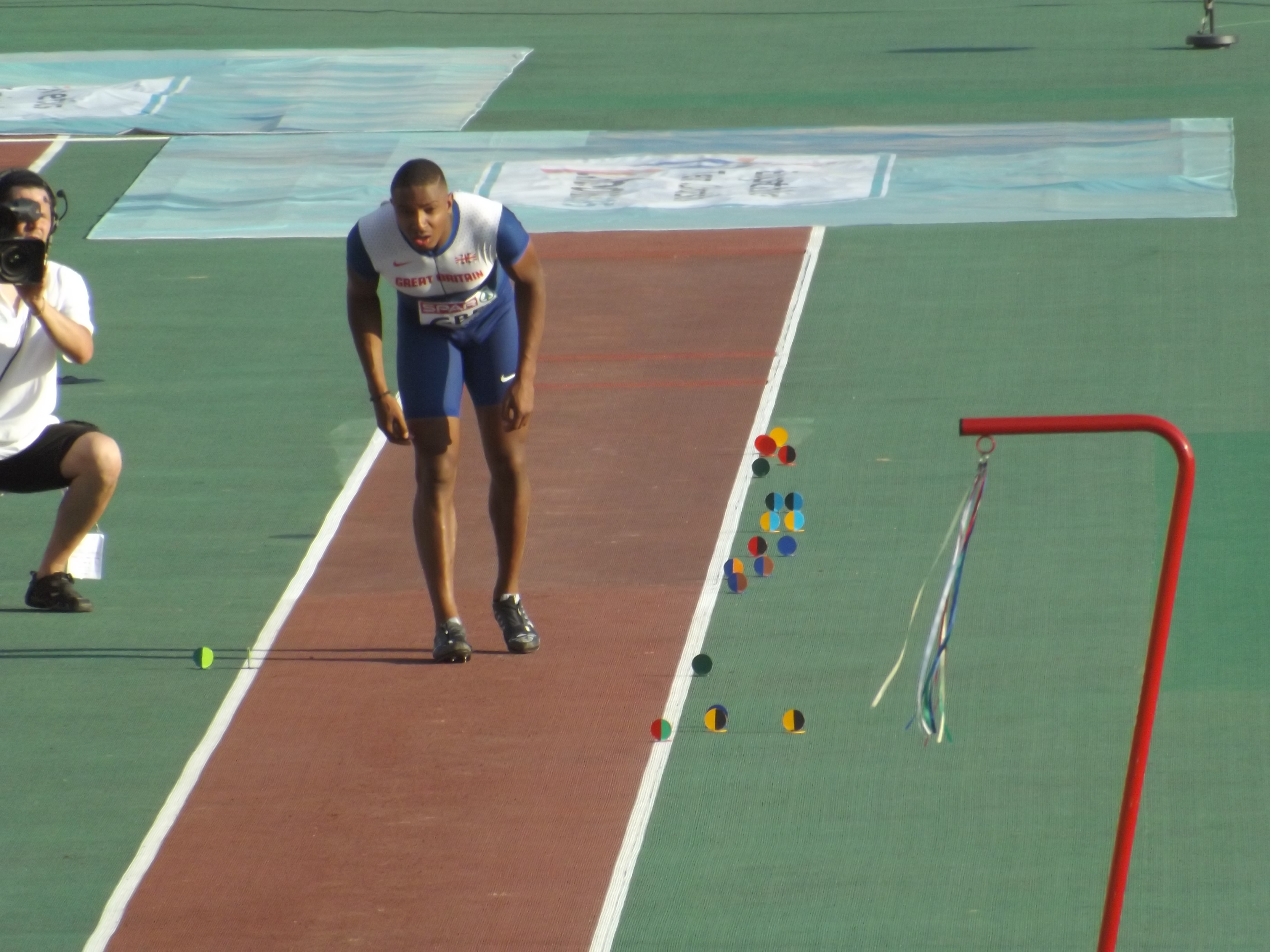 British long jumper Dan Bramble during 2015 European Team Champioships